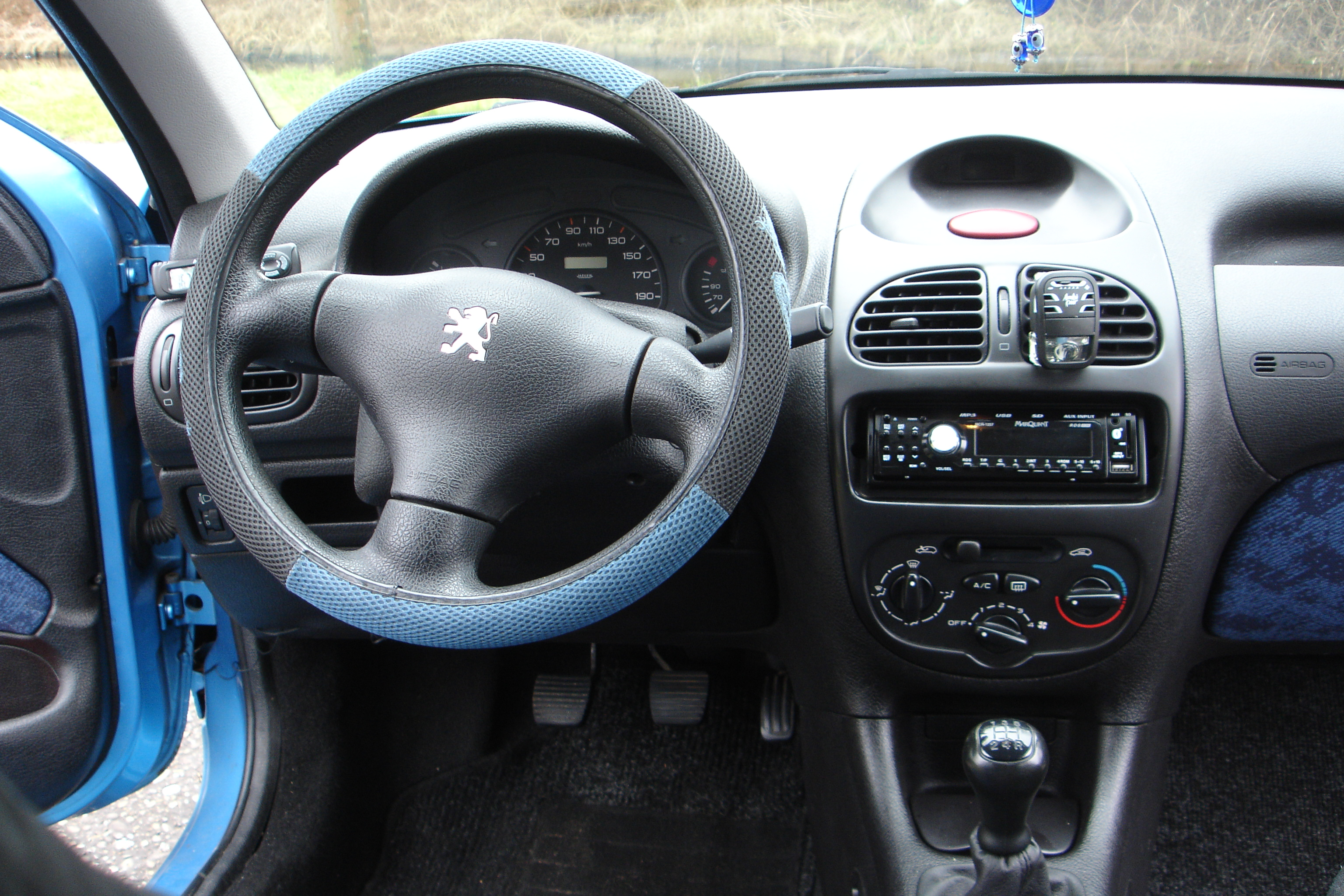 A 1999 3 door Peugeot 206 with a 1.1 L TU1JP petrol engine Kurdî: Peugeot 206 3 dirga sali 1999 ba 1.1 L TU1JP petrol mator